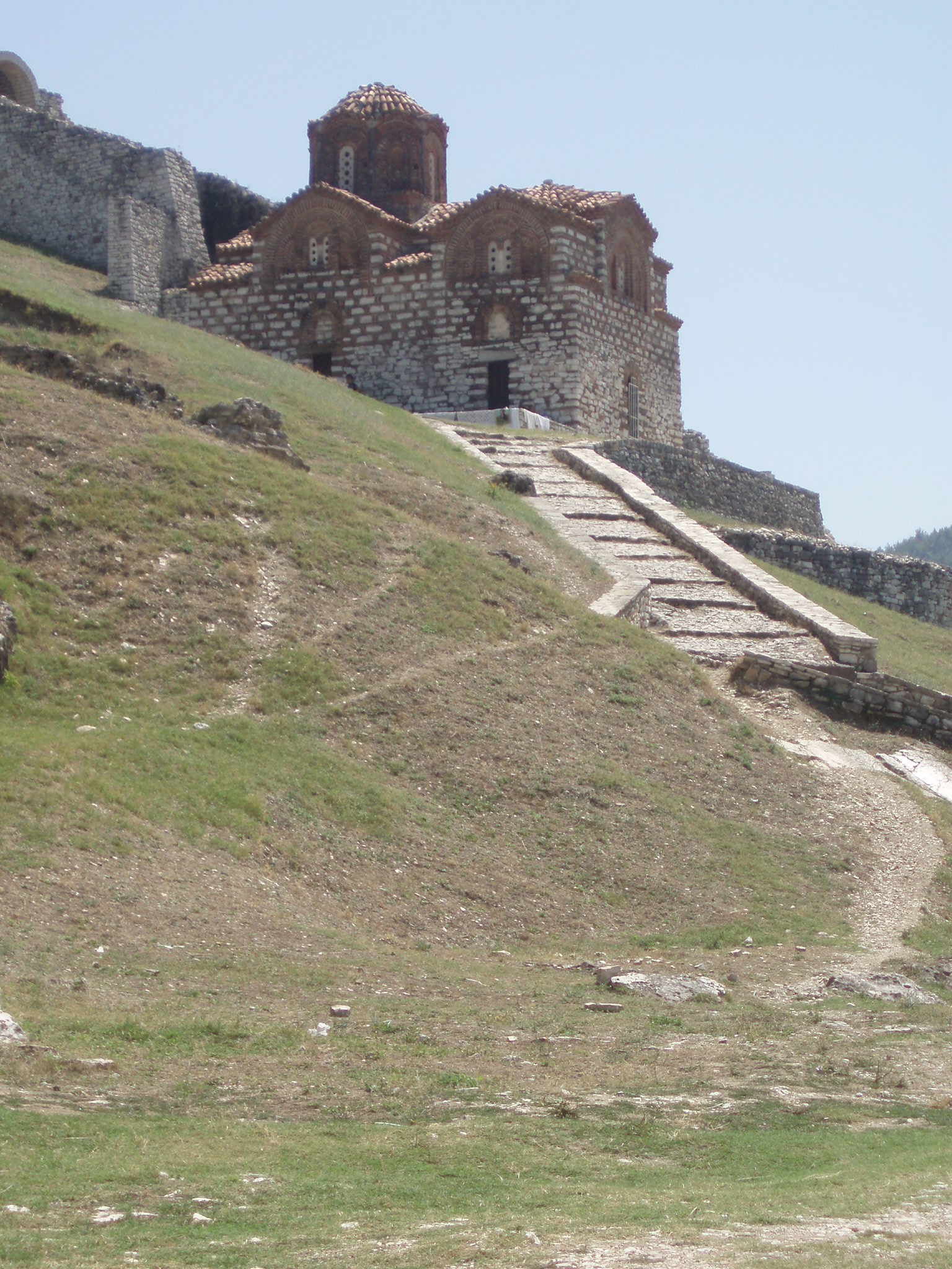 an Orthodox church in Berat Castle, Albania